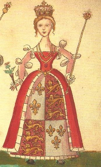 Joan Beaufort, queen of Scotland and wife of James I. Coat of arms of England on her clothing, holding scepter and thistle.